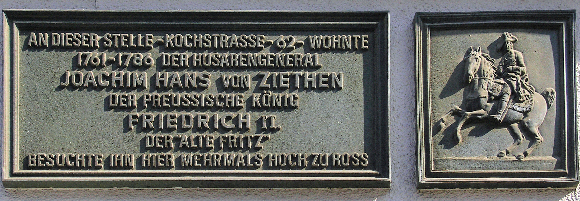 Memorial plaque, Hans Joachim von Ziethen, Rudi-Dutschke-Straße 28, Berlin-Kreuzberg, Germany